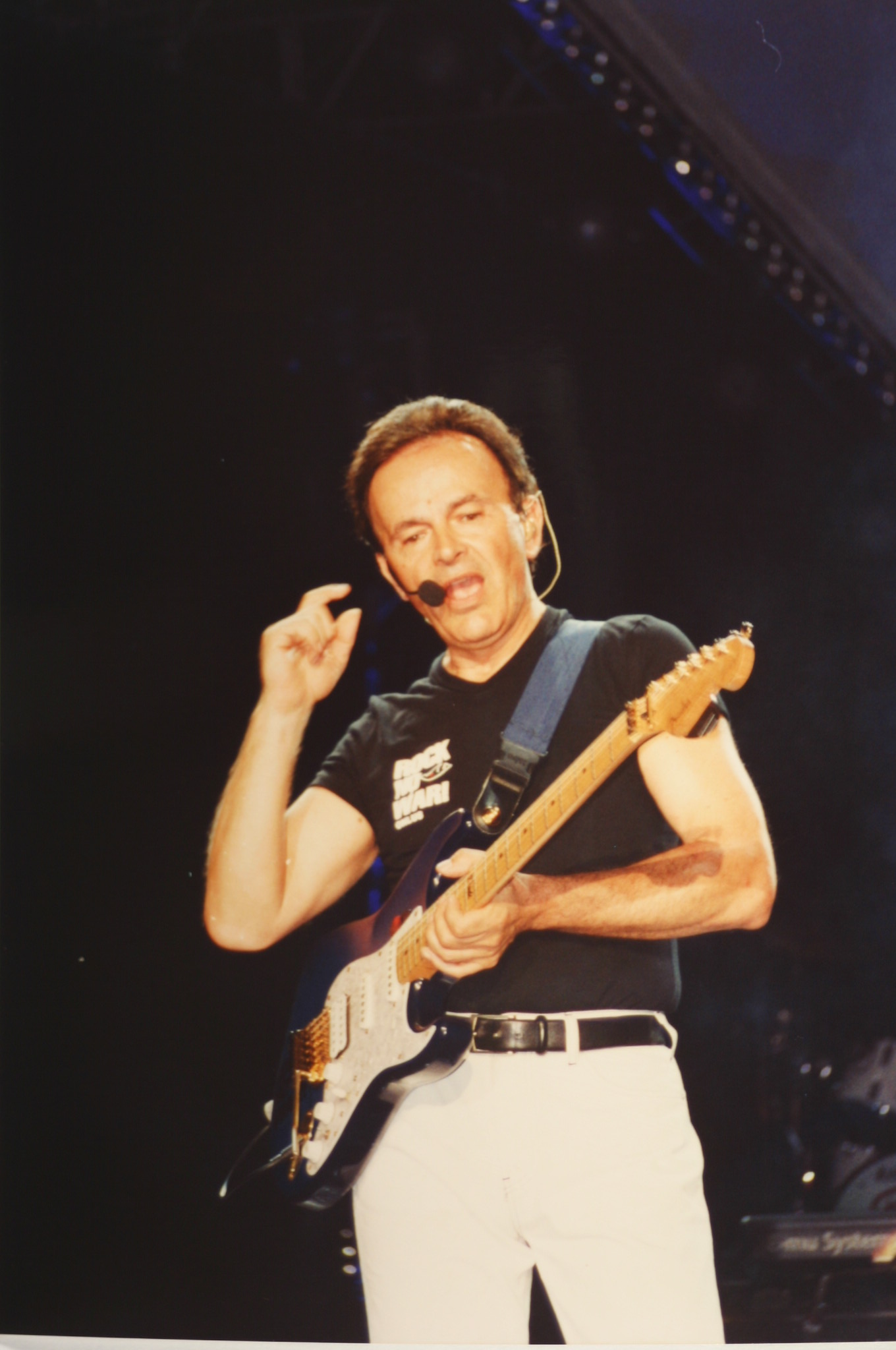 Dodi Battaglia, Pooh, at the concert in Monza, 2004